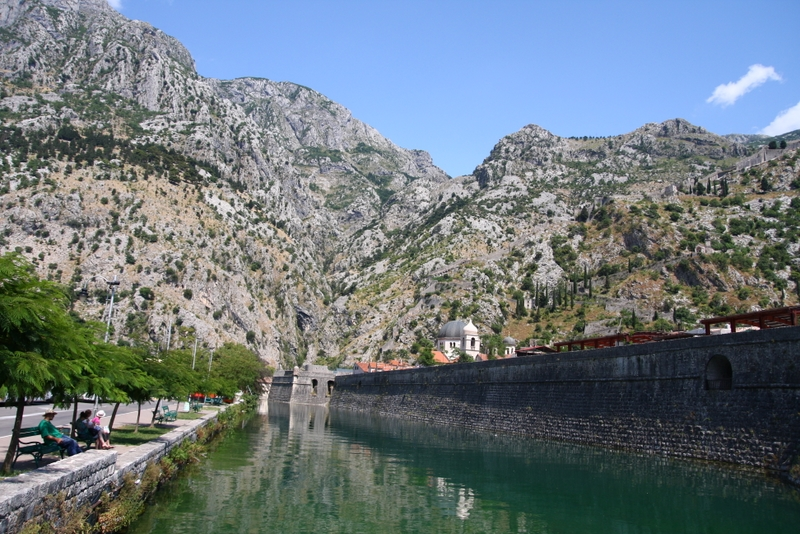 Kotor, Montenegro